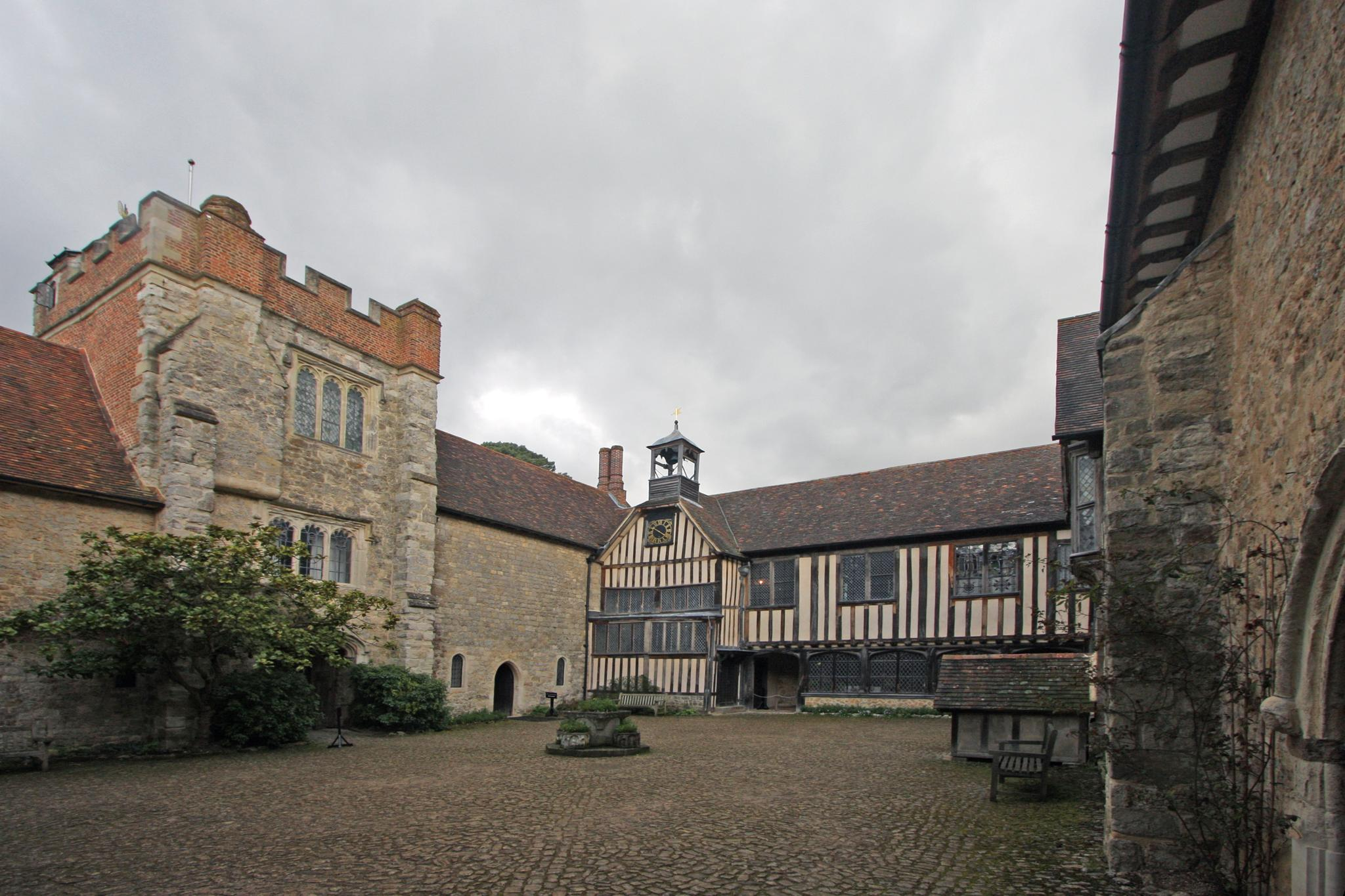 Ightham Mote courtyard